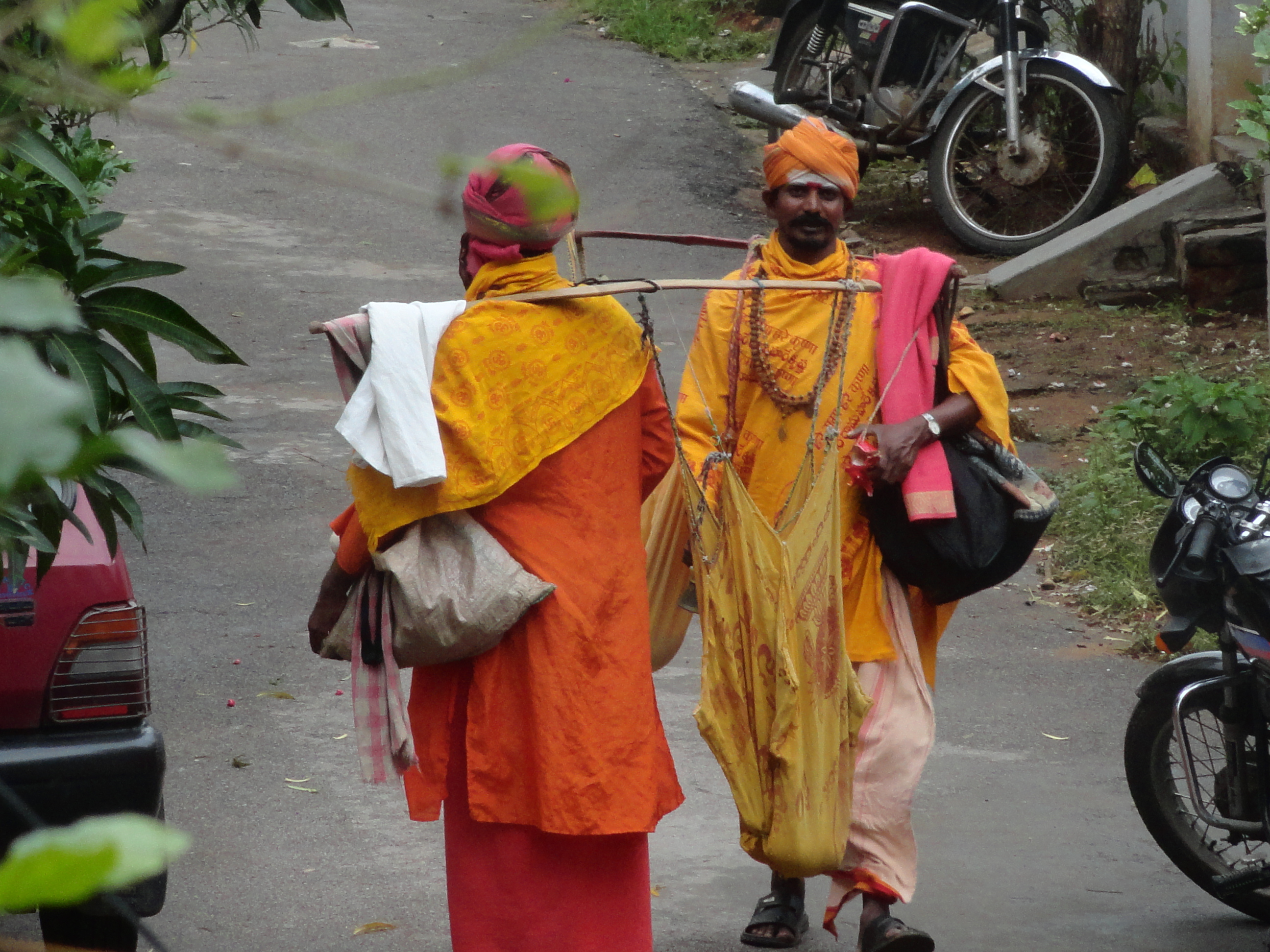 buddha monks at nagarjuna sagar